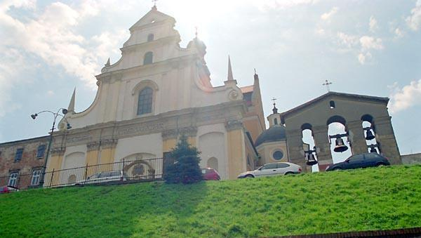 Church of St. Theresa (Carmelite) in Przemyśl, Poland